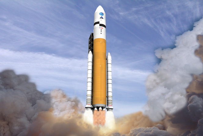 Ares V (version with 6 engines) Launching (July 2008) 2 July 2008 -- A concept image shows the Ares V cargo launch vehicle launching from NASA's Kennedy Space Center, Fla. Image credit: NASA/MSFC